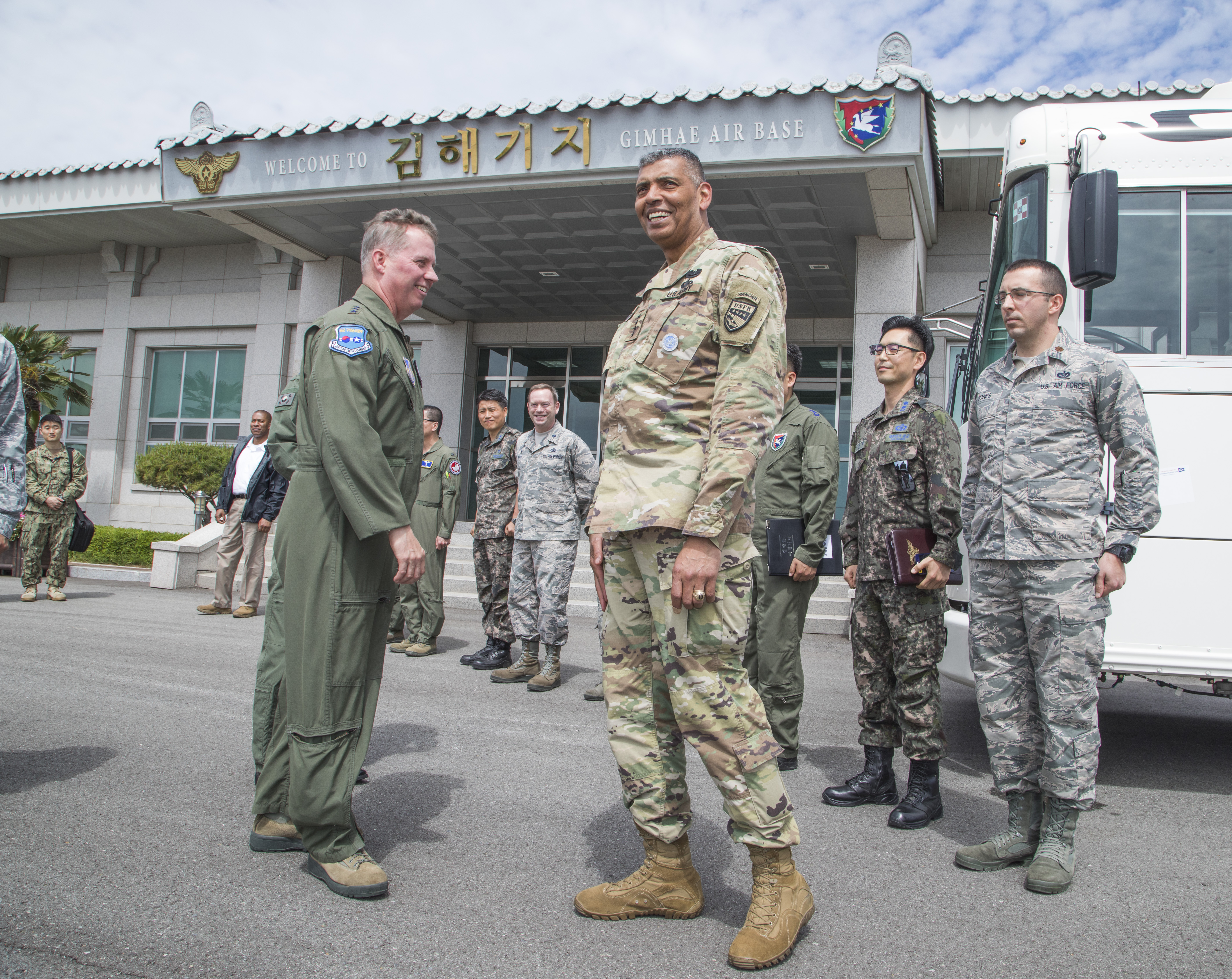 Gimhae Gwangju Visit